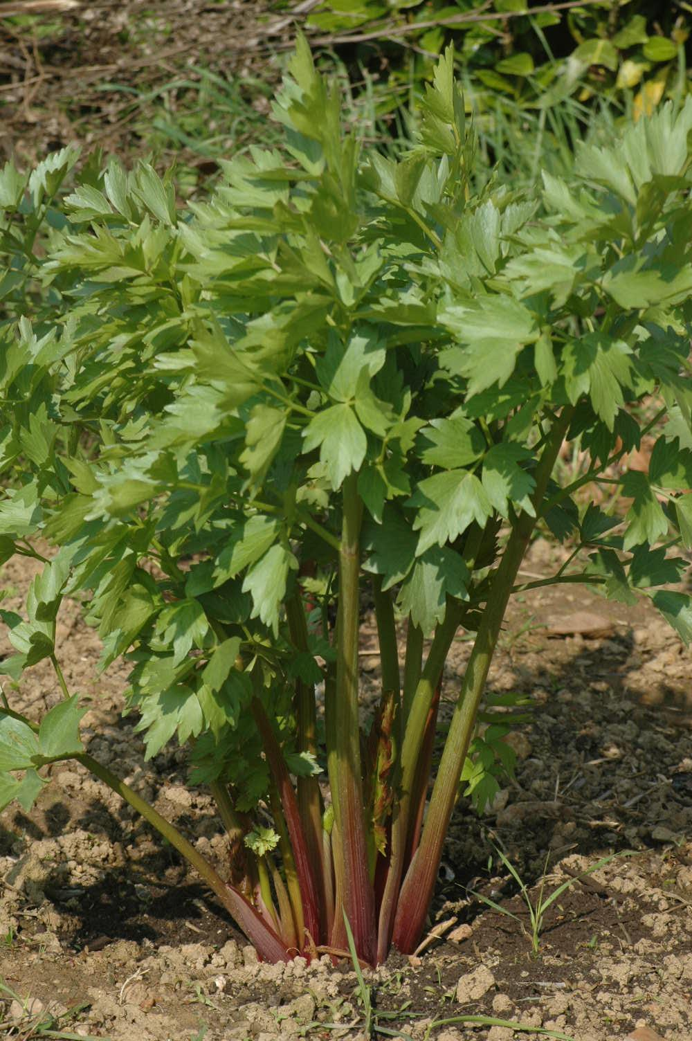 Levisticum officinale - Ploufragan-France july 2004 - plant